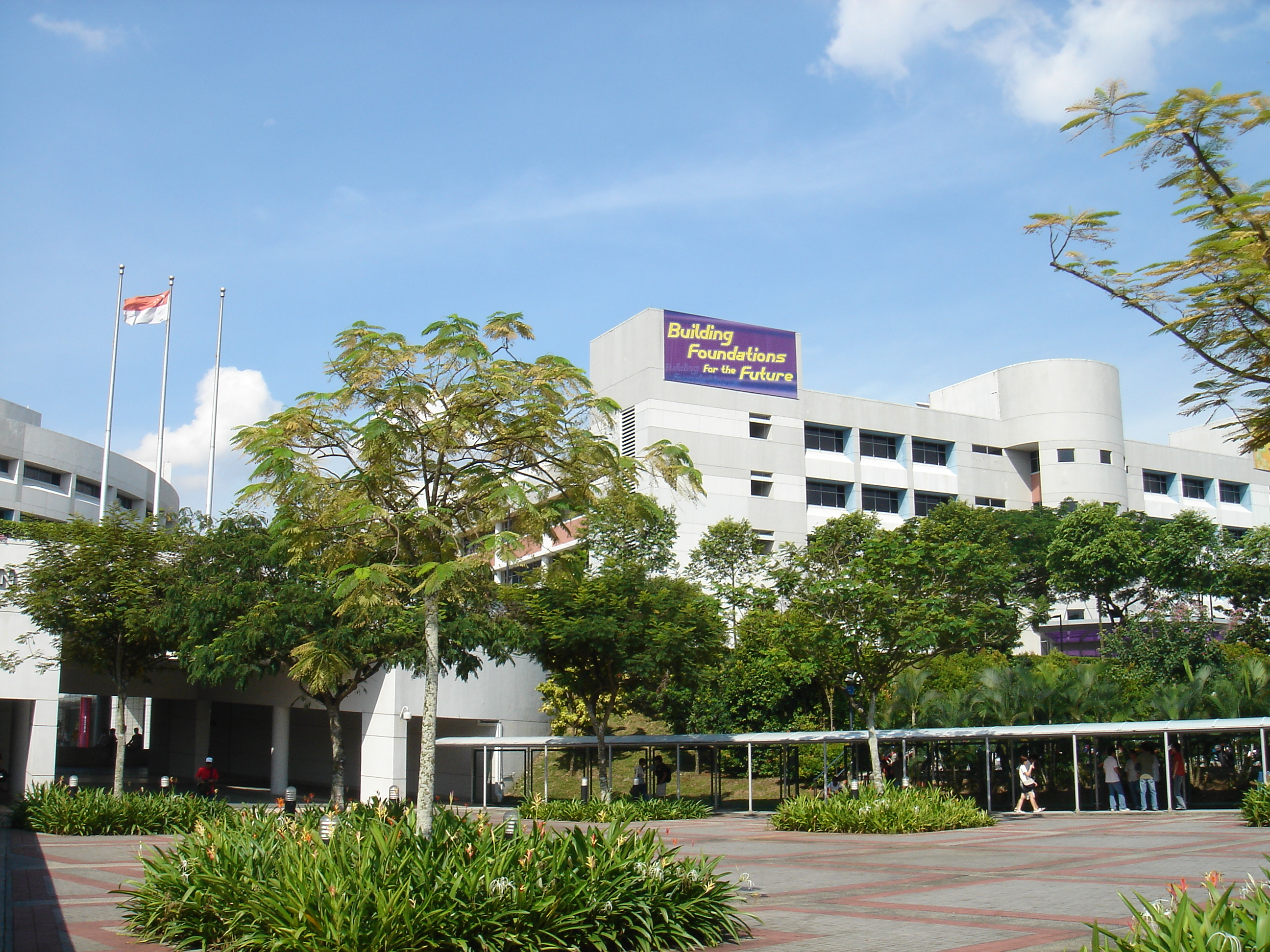 Campus of Nanyang Polytechnic.